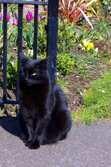 Sid the library cat On duty to welcome visitors to the library in Rock Road.